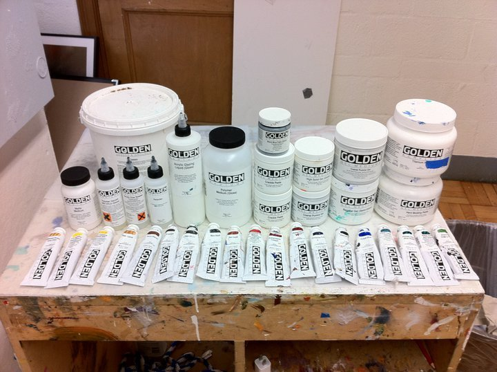 A photograph of some of Golden Artist Colors line of acrylic paints, mediums, additives, grounds, and varnishes.